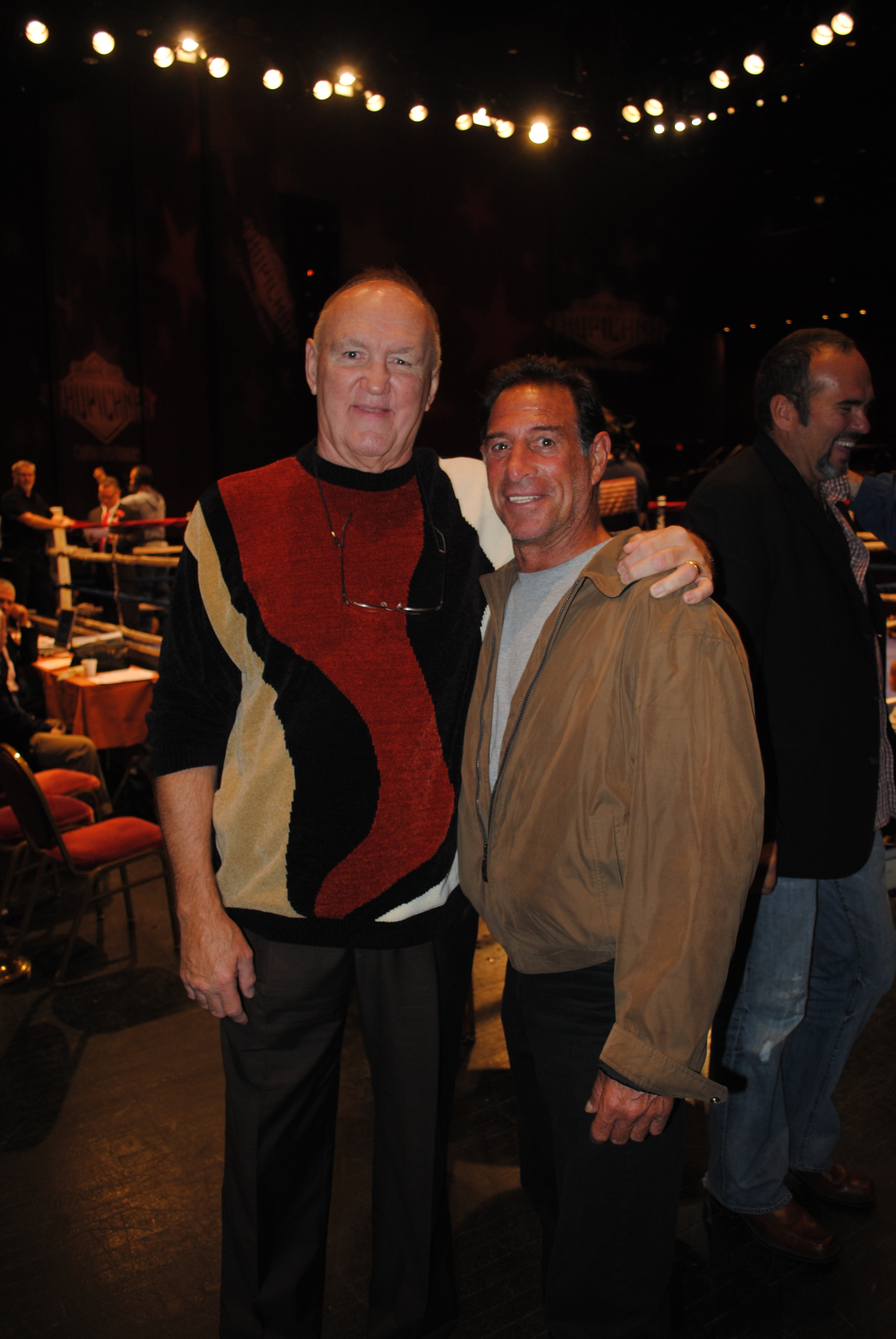 Chuck Wepner and Mike Rossman ringside at Tropicana Casino in Atlantic City, New Jersey, October 12, 2012